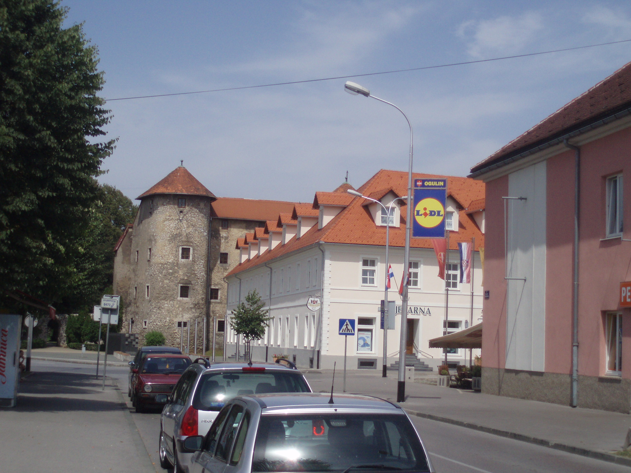 Centre of Ogulin. The road leads towards Vrbovsko and Rijeka. In the background you can see Frankopan tower.